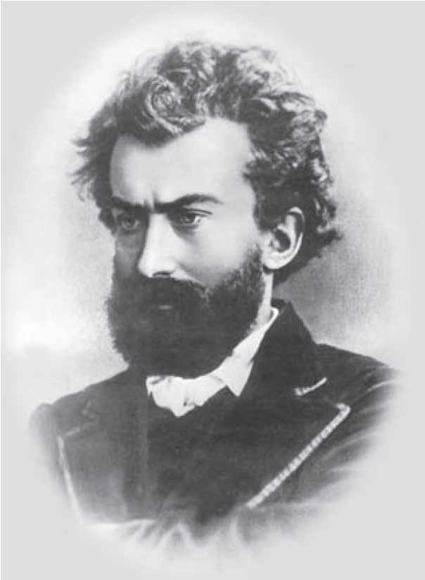 Myklukha-Maklai Mykola Mykolayovych